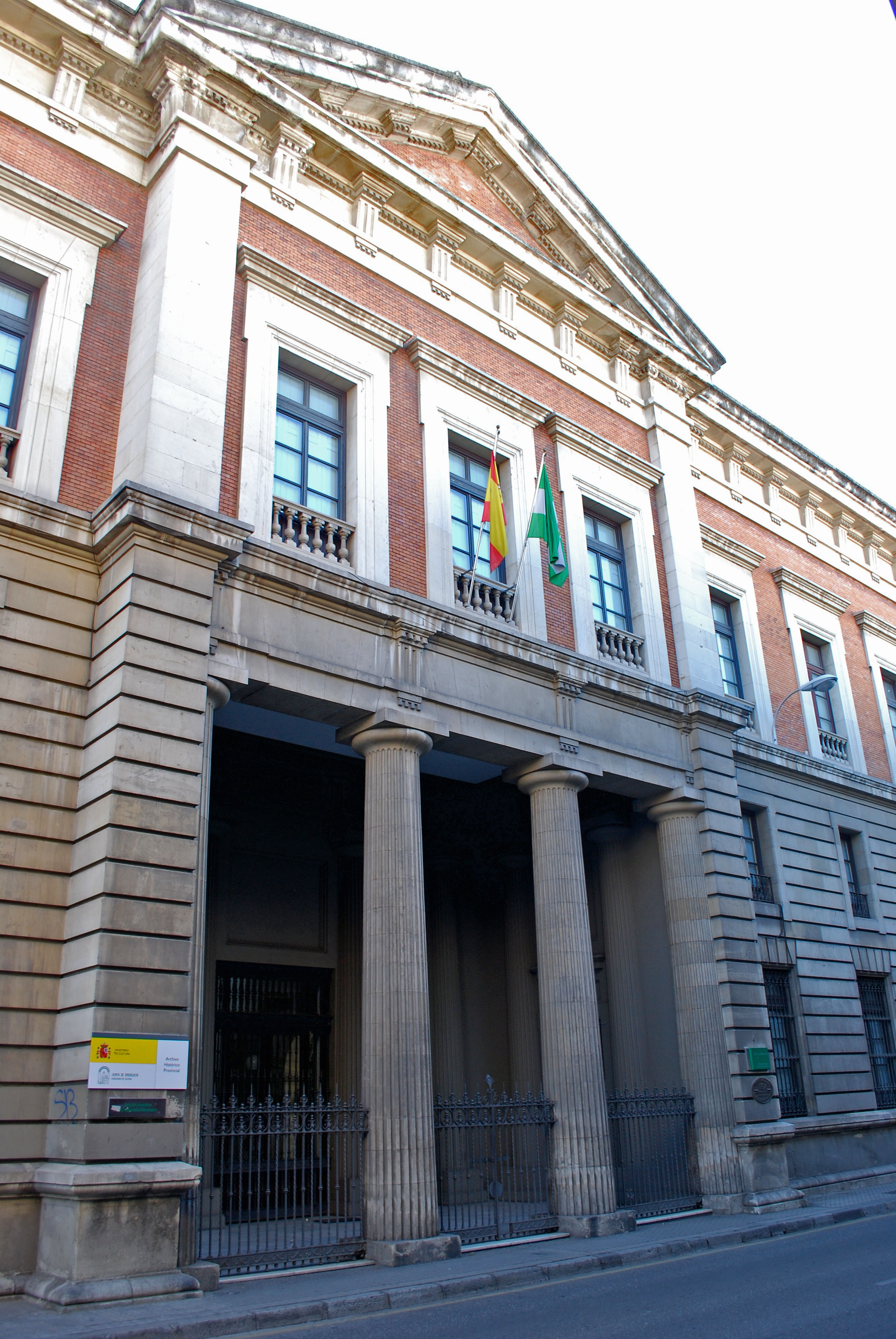 newspaper library of Seville